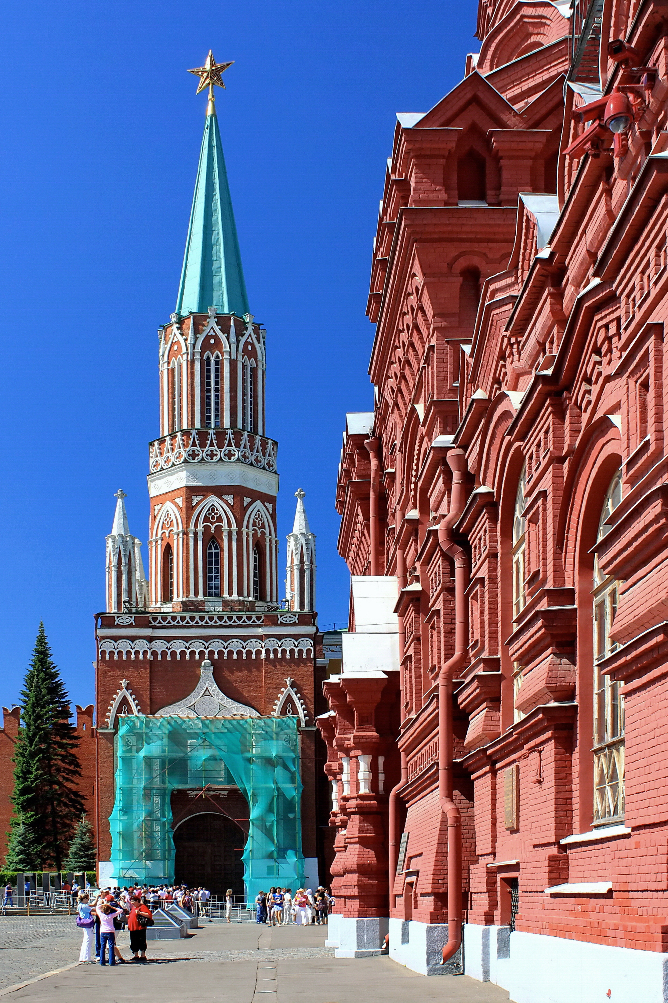 Nikolskaya Tower. Red Square, Moscow, Russia.